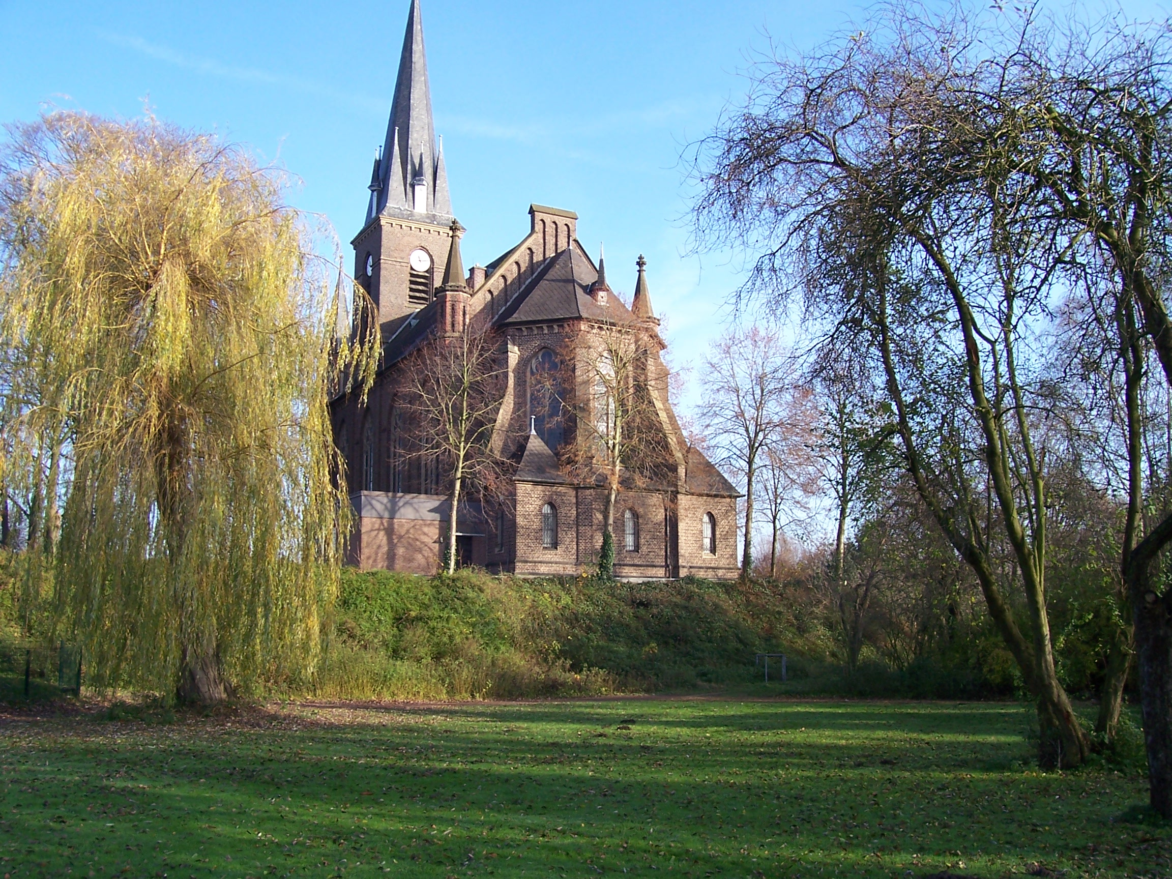 Catholic church St. Peter und Paul on the motte of castle Werth